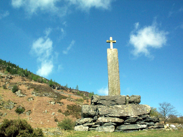 Taliesin Monument. This monument commemorates the supposed birthplace of the ancient bard Taliesin on the shores of Llyn Geirionydd.